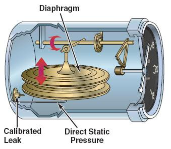 Diagram of how a vertical airspeed indicator works